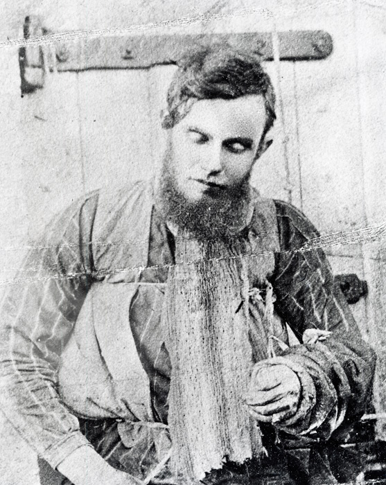 Title : Personalities - Joe Byrne, one of Ned Kelly's gang. This photo was taken shortly after his body was recovered from the burning Glenrowan Hotel in June1880